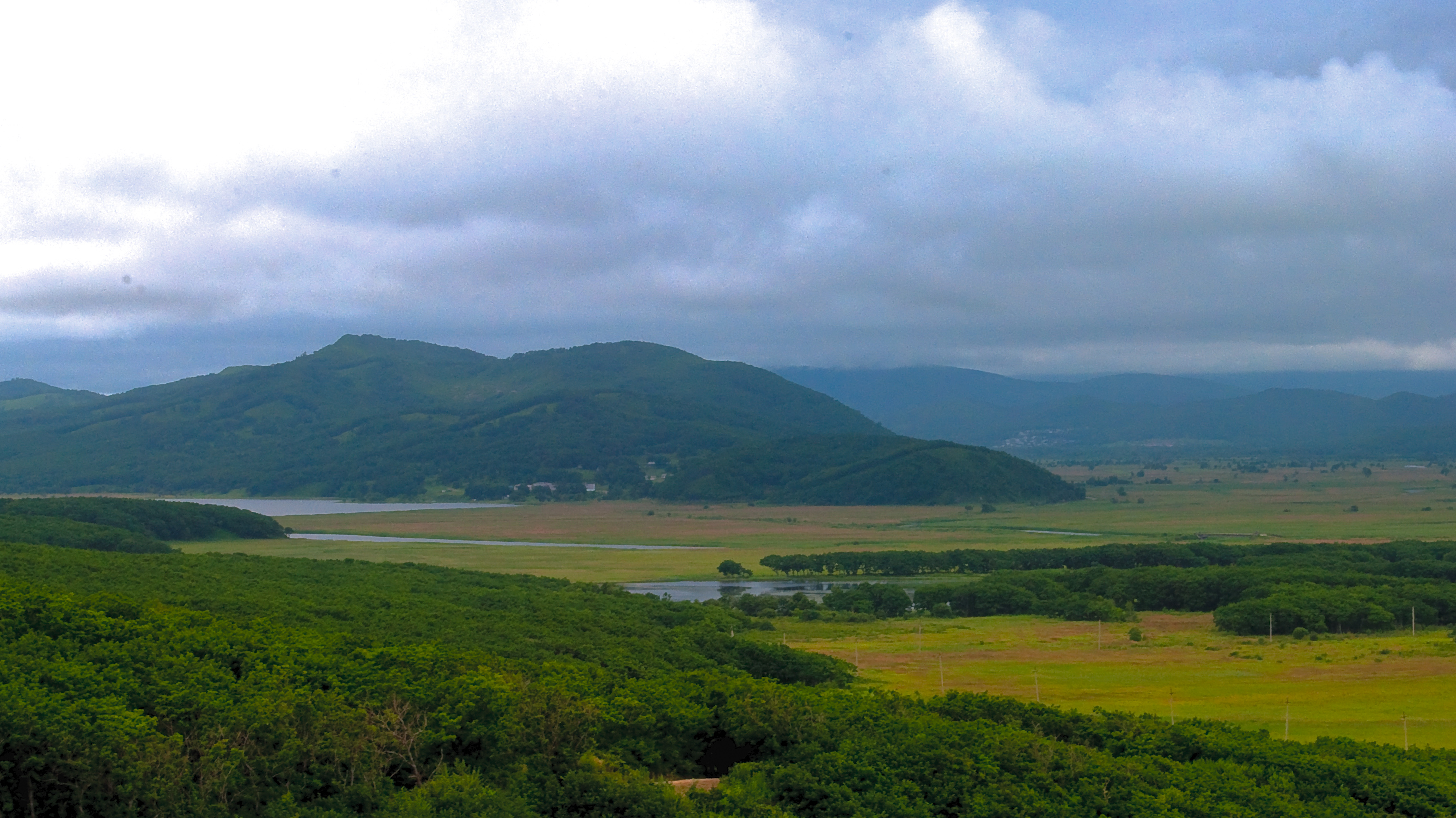 Zerkalnoe Lake, Kavalerovo, Russia This image is related to the protected area of Russia number 2510077